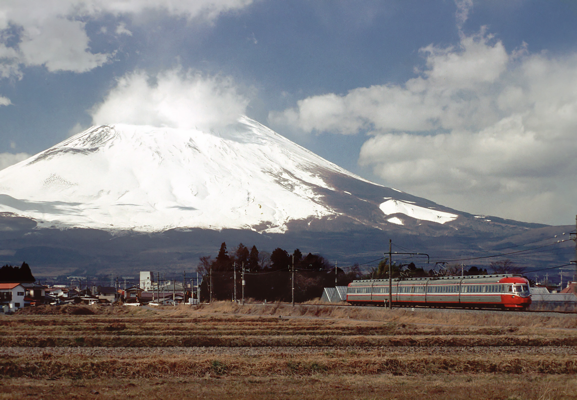 Odakyu Electric Railway 3000 series EMU for the limited express service Asagiri running between Ashigara and Gotemba on Gotemba Line